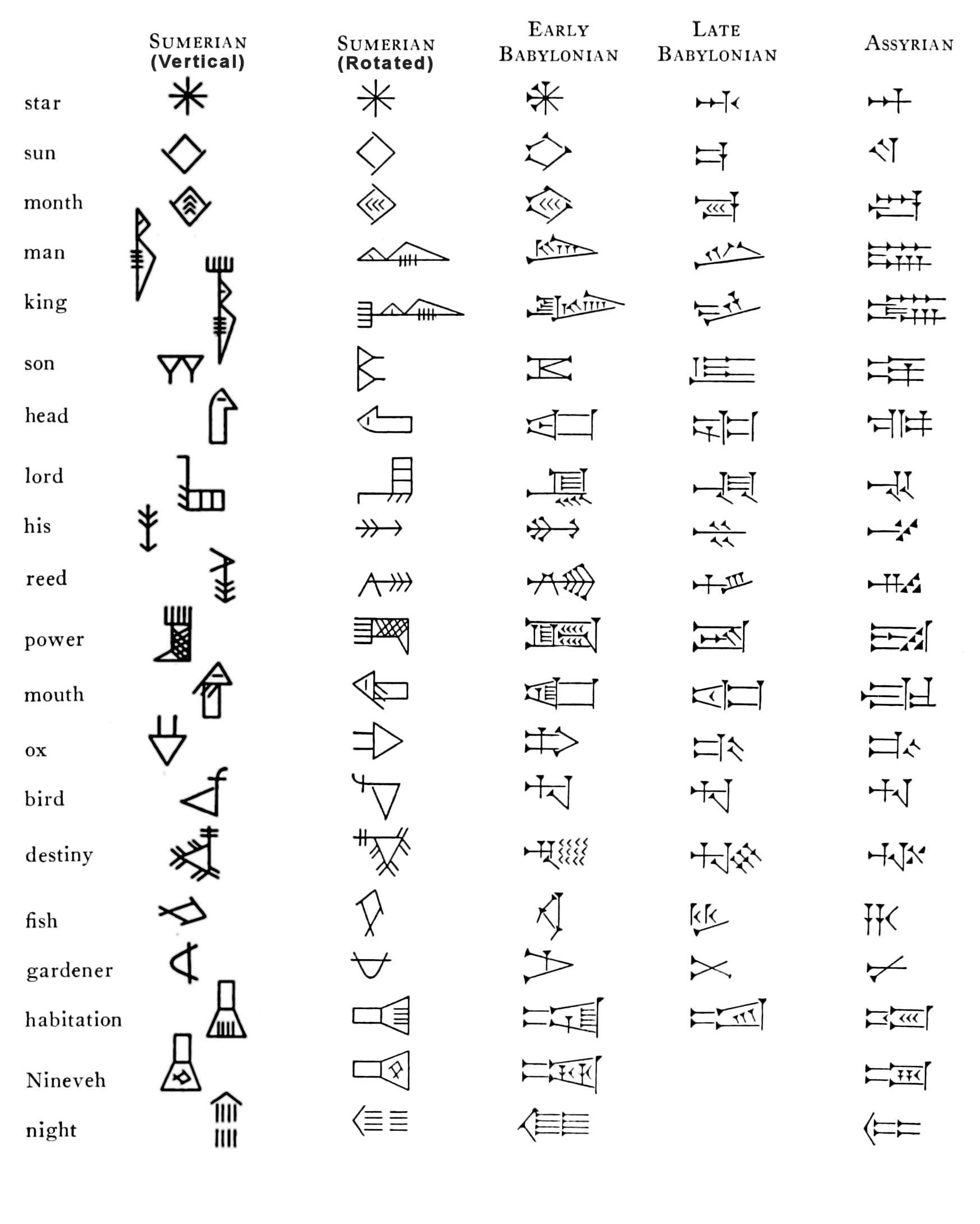 Cuneiform evolution from archaic script